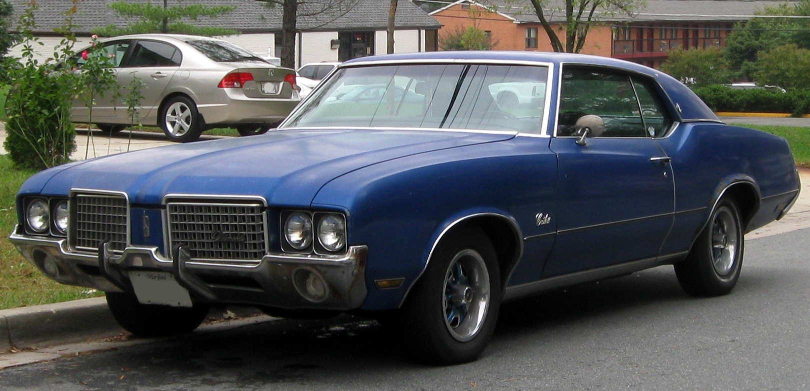 Oldsmobile Cutlass photographed in College Park, Maryland, USA.